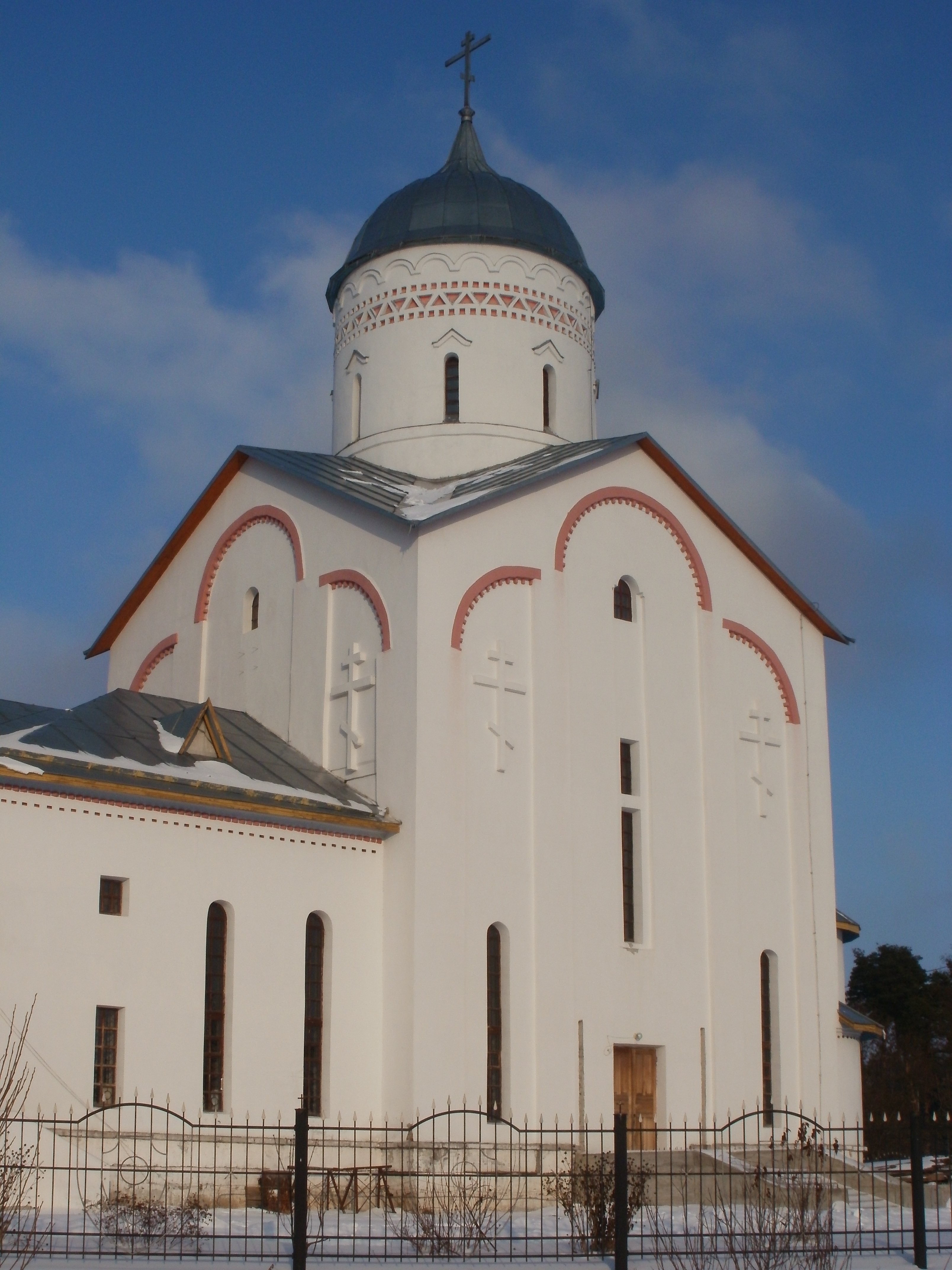 Sviato-Alexandra-Neuskaja carkva Беларуская (тарашкевіца): Sviato-Alexandra-Neuskaja царква ў Гомелі